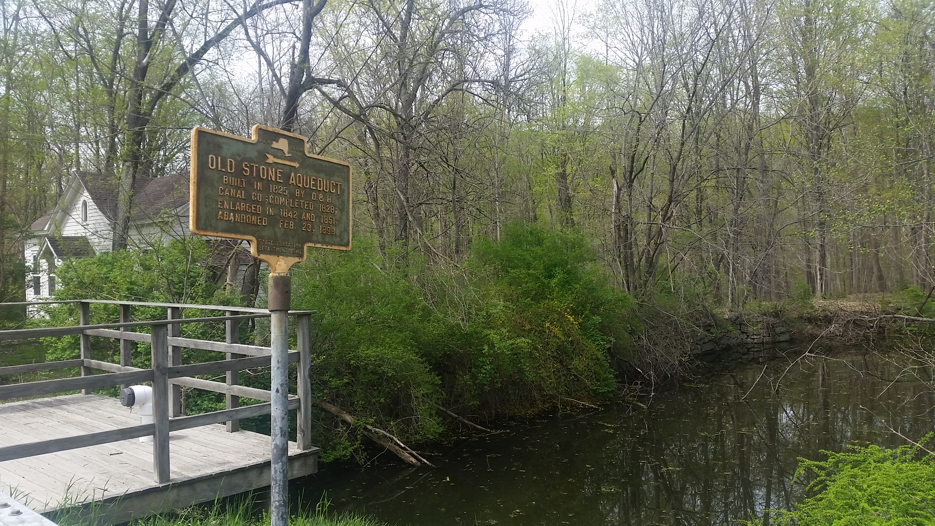 NY State Historical Marker for one of the D&H Canal Aqueducts in High Falls, NY (to be technical, it points to lock #15 on the expanded, 1850 route, beyond which was a Roebling aqueduct)